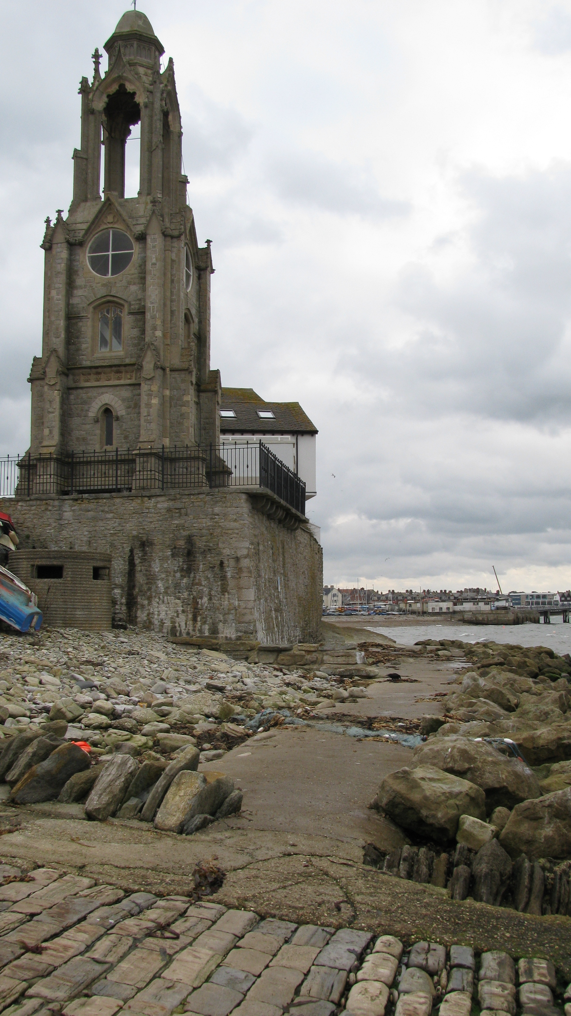 swanage coast